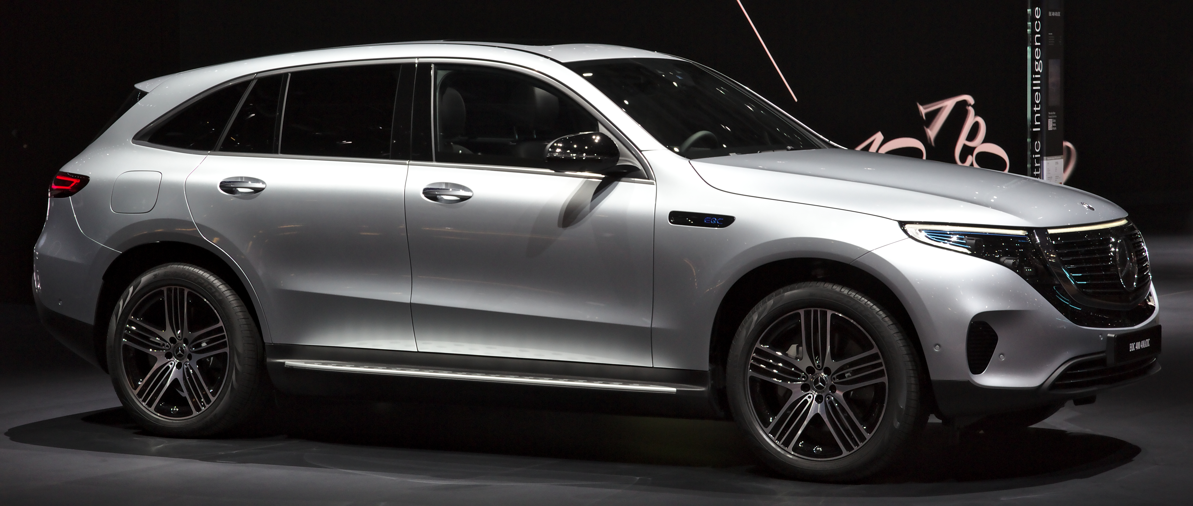 Mercedes-Benz EQC 400 4Matic at Geneva Motor Show 2019